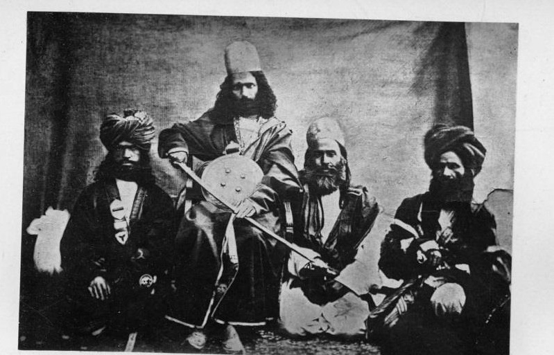 Mir Nasir Khan Baloch II